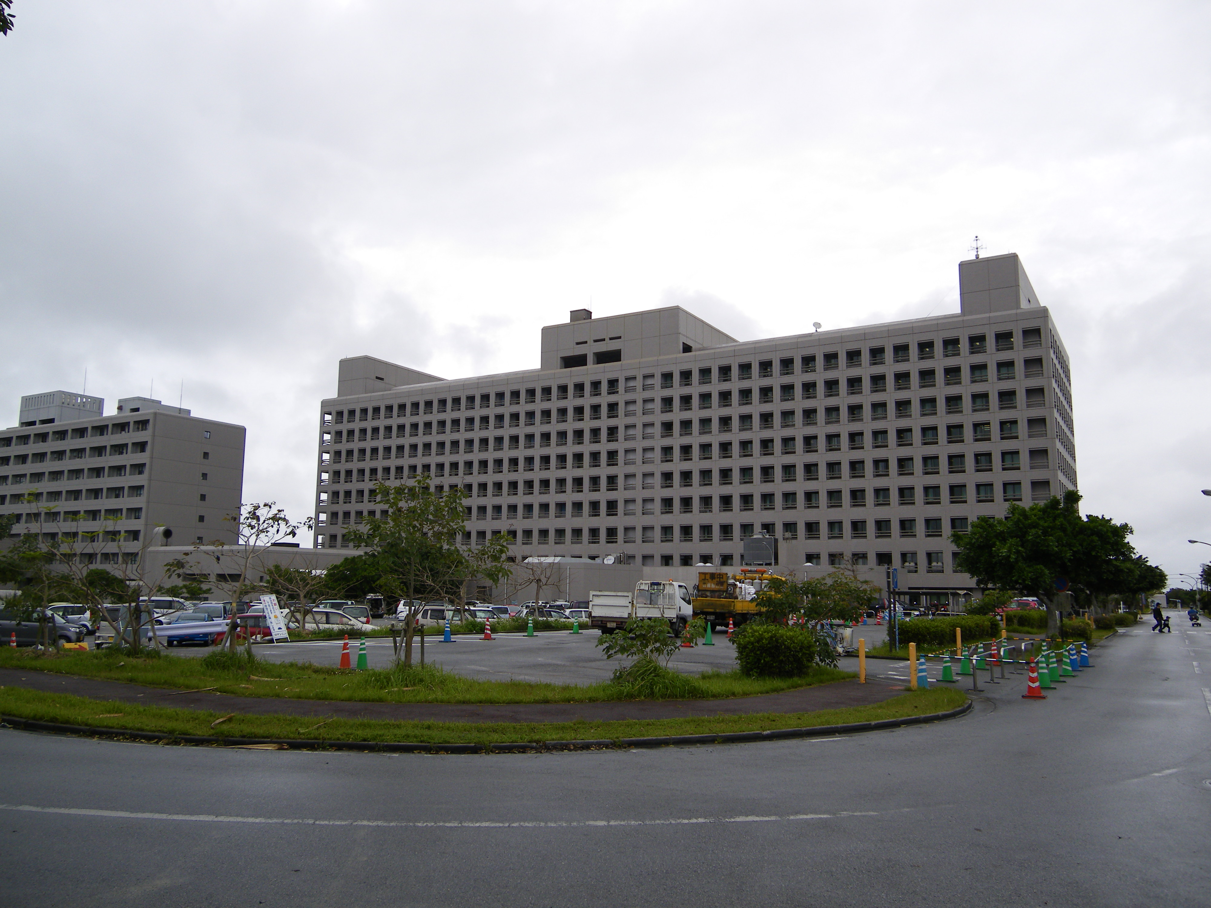 The University of the Ryukyus Hospital